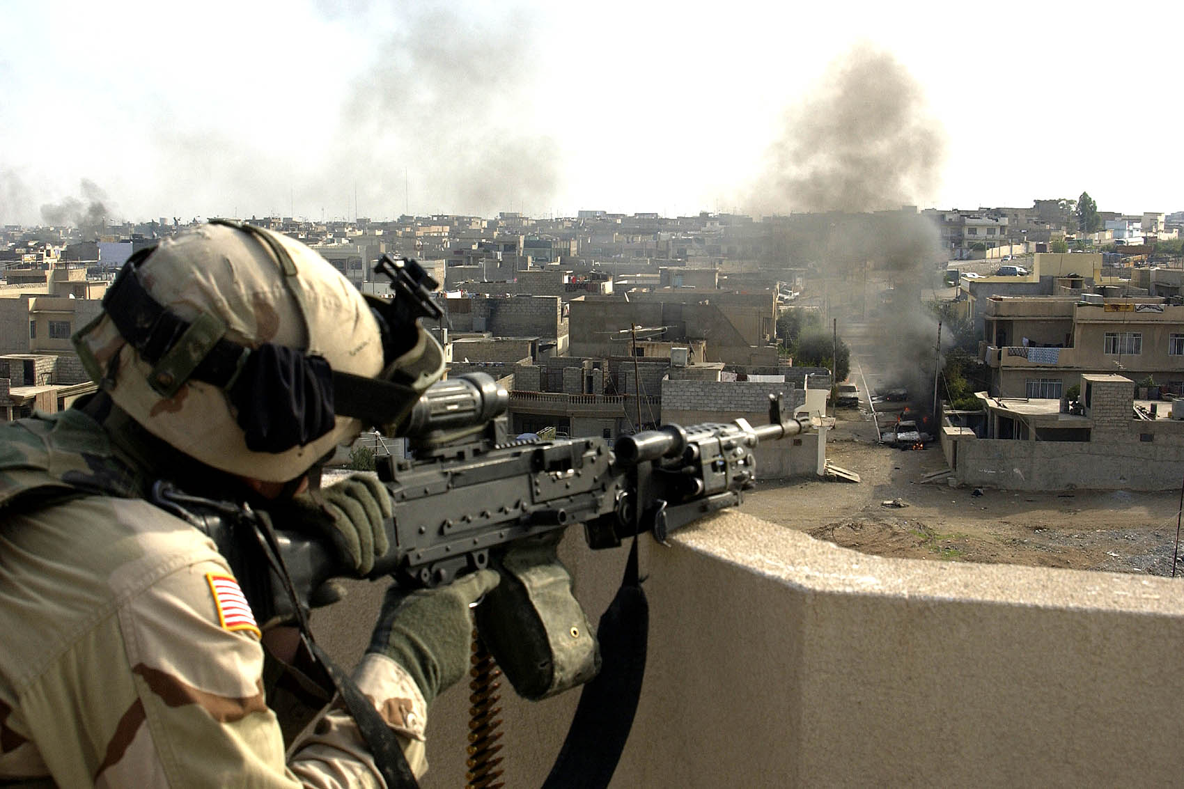 A soldier from the 1st Battalion, 24th Infantry Regiment, 25th Infantry Division, engages enemy targets with his machine gun on November 11 2004